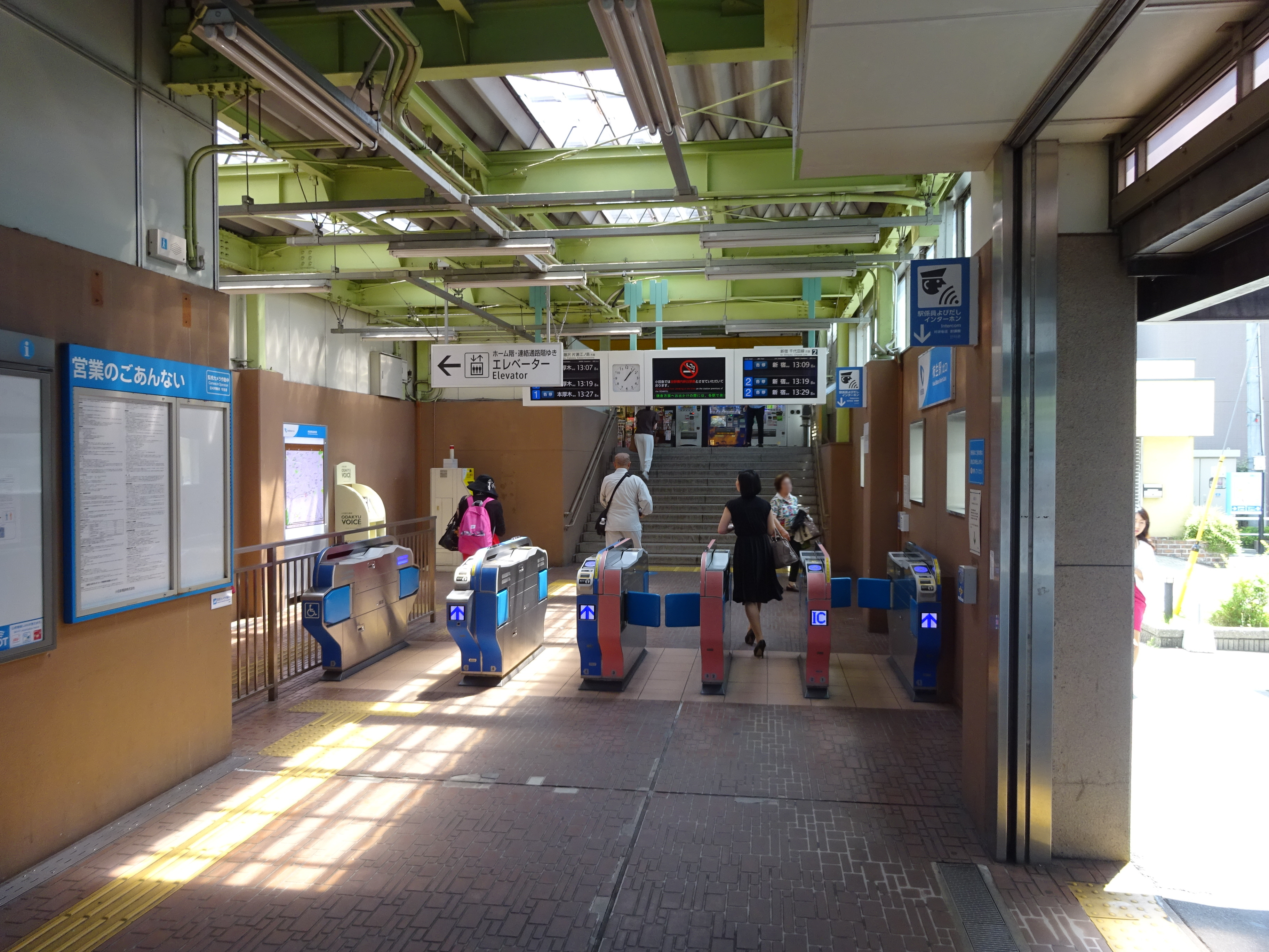 Ticket barriers of Kakio Station(North entrance)